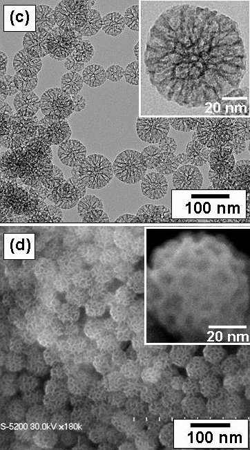 TEM and SEM imahes of mesoporous silica nanoparticles